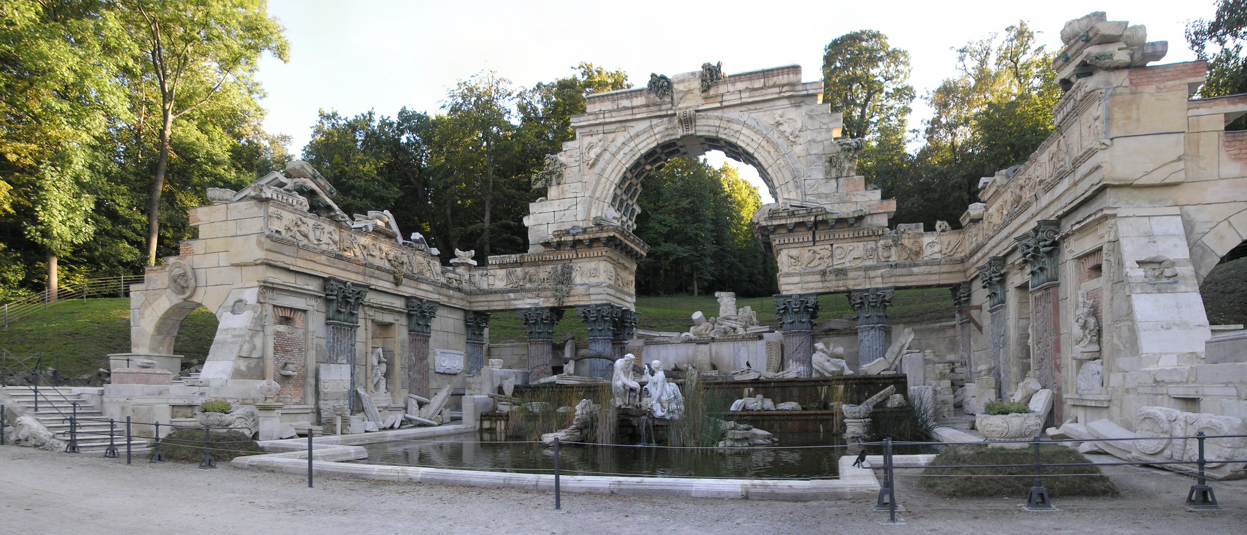 Faux roman ruin at the gardens of Schönbrunn. Panoramic view